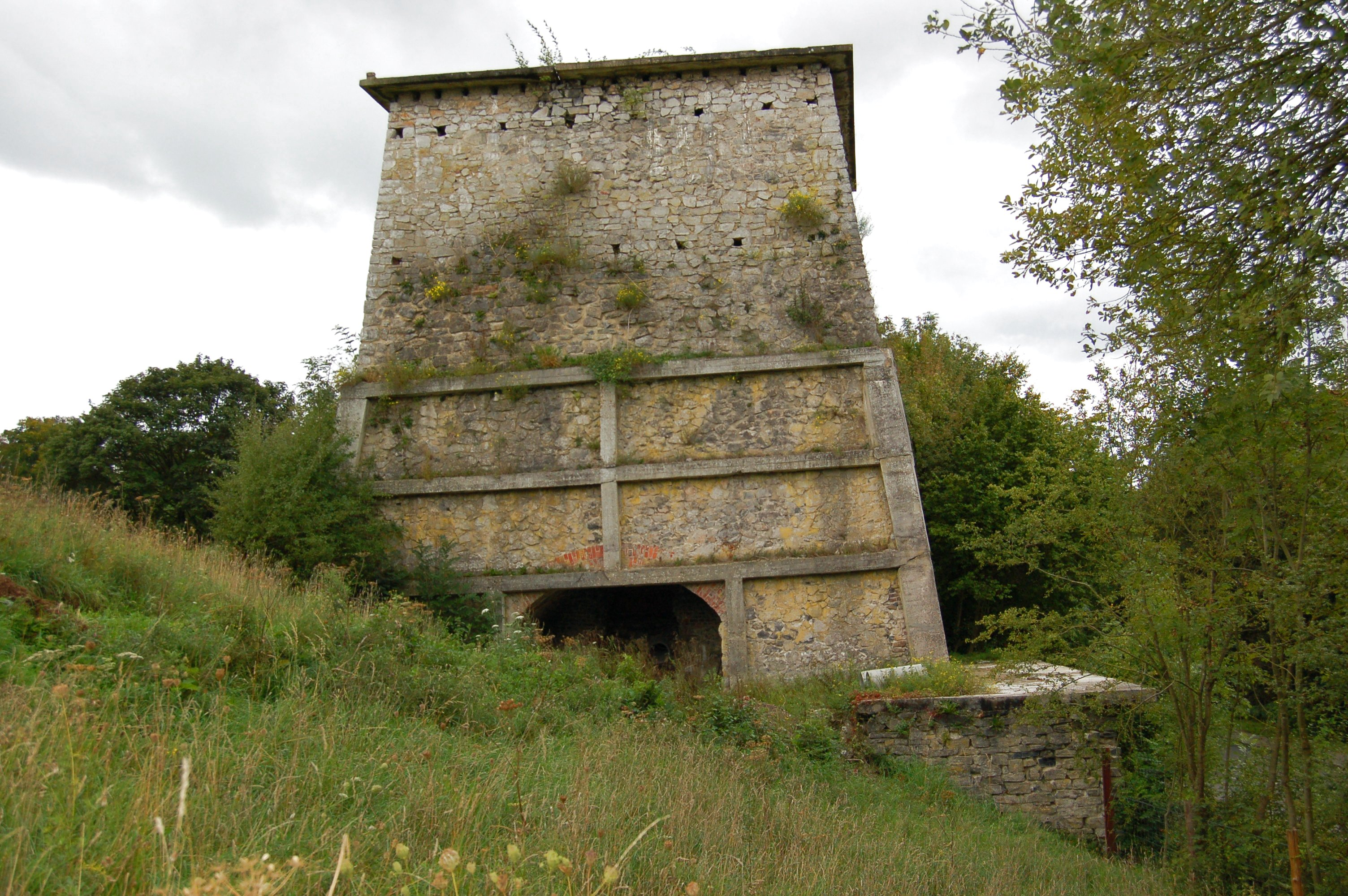 old limekiln in Brand, Bilstermühlenstraße